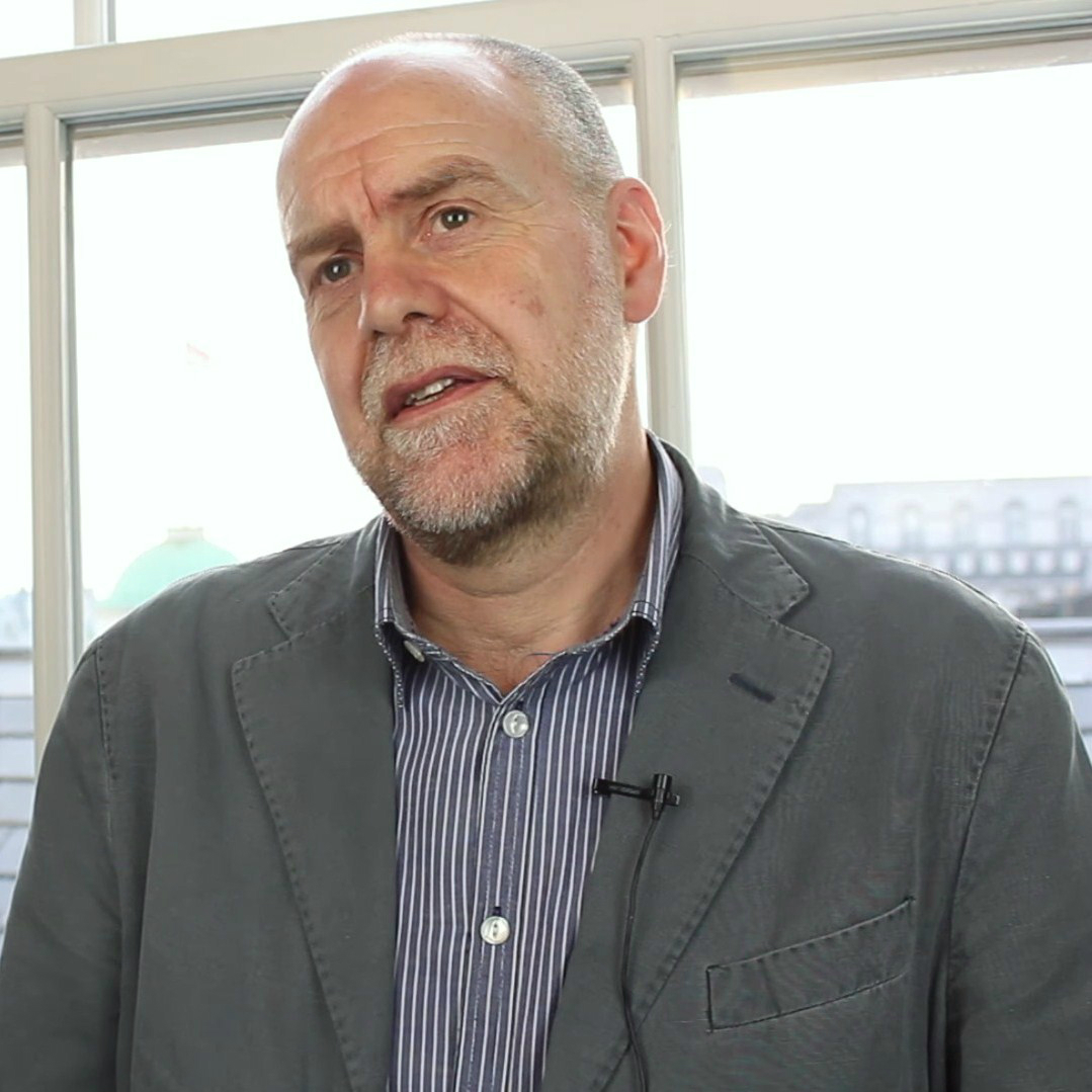 Professor Andrew Lambert, a British naval historian and author.